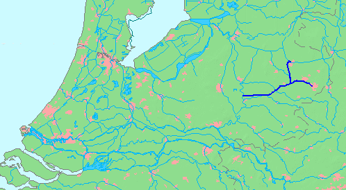 Location of a waterway (river/canal) in the Netherlends